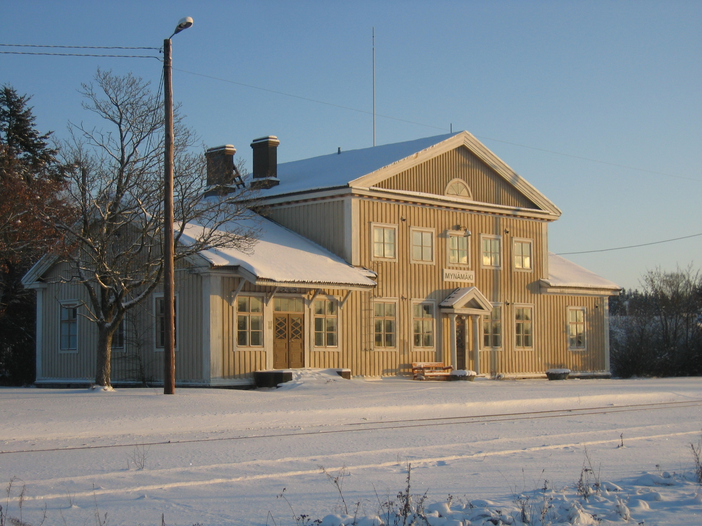 Mynämäki railway station in Mynämäki, Finland